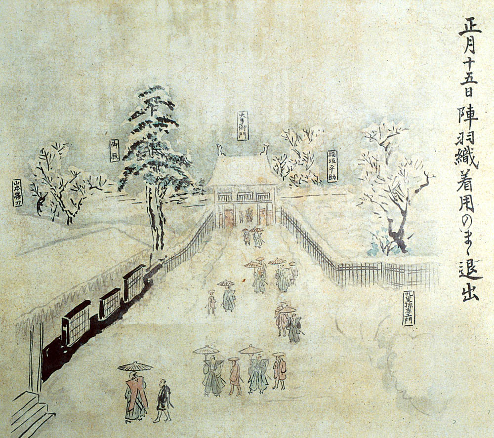 "Nagaoka jōka nenjū gyōji zue - Shōgatsu jugonichi jinbaori chakuyō no mama taishutsu". Picture of annual event of the Nagaoka Castle - Samurai who come out of the Nagaoka Castle with wearing Jinbaori on January 15. Collection of the Nagaoka City Central Library.